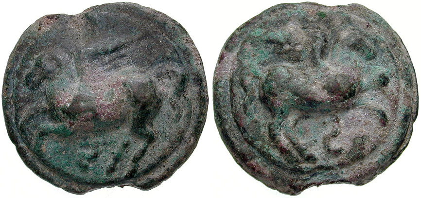 Anonymous Æ Aes Grave Semis (178.46 g) circa 275BC-270BC according to Crawford Pegasus flying right, S below; all on raised disk Pegasus flying left, S below; all on raised disk. Thurlow-Vecchi 9; Crawford 18/2; Haeberlin pl. 35, 7-10